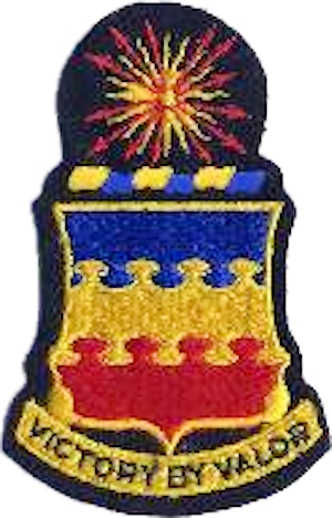 Emblem of USAF 20th Fighter Group, 1950s